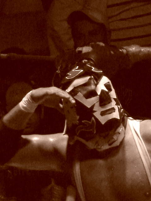 A black and white photo of Mexian Luchador Dr. Wagner, Jr.